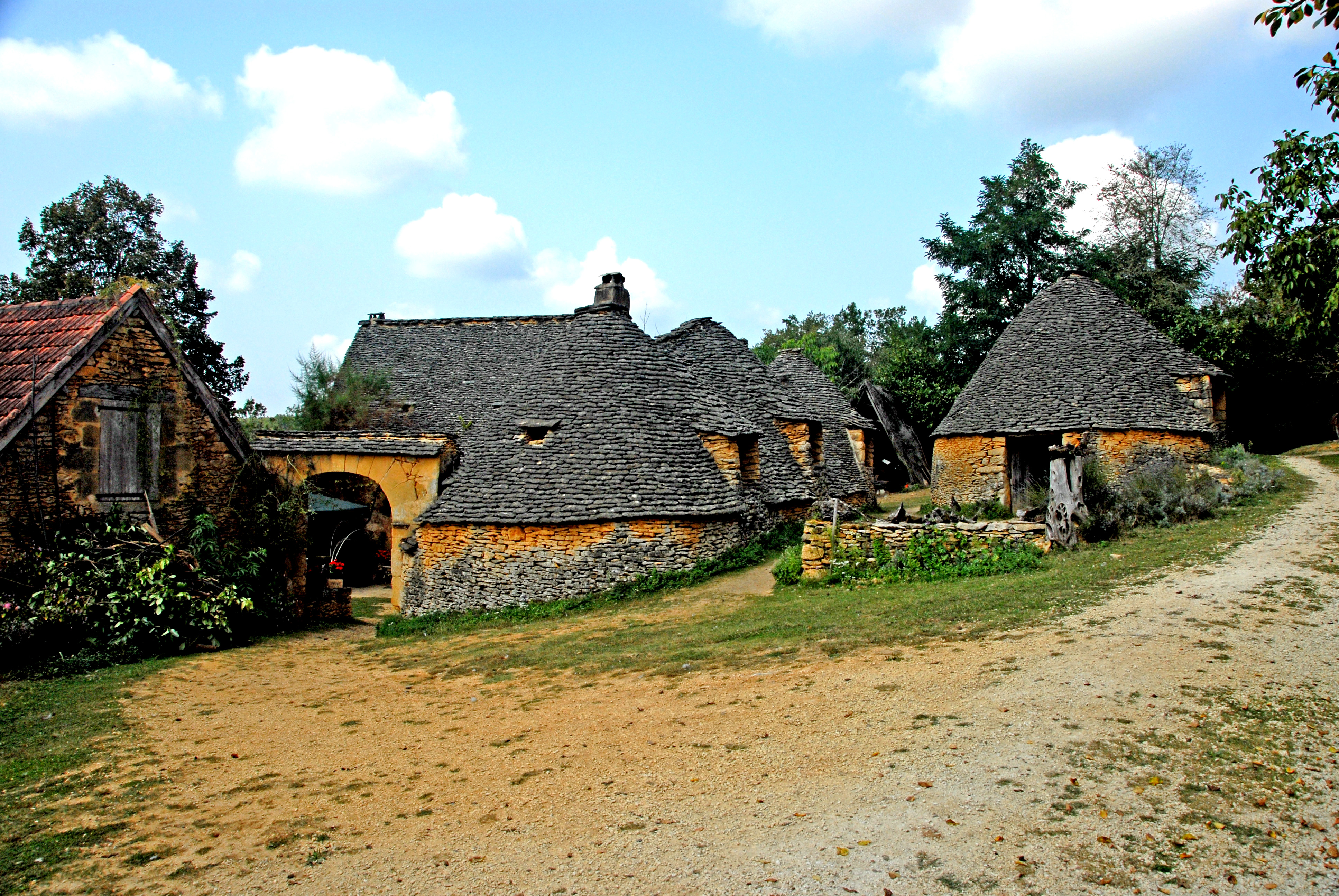 dry stone cottages at Cabanes du Breuil in France.